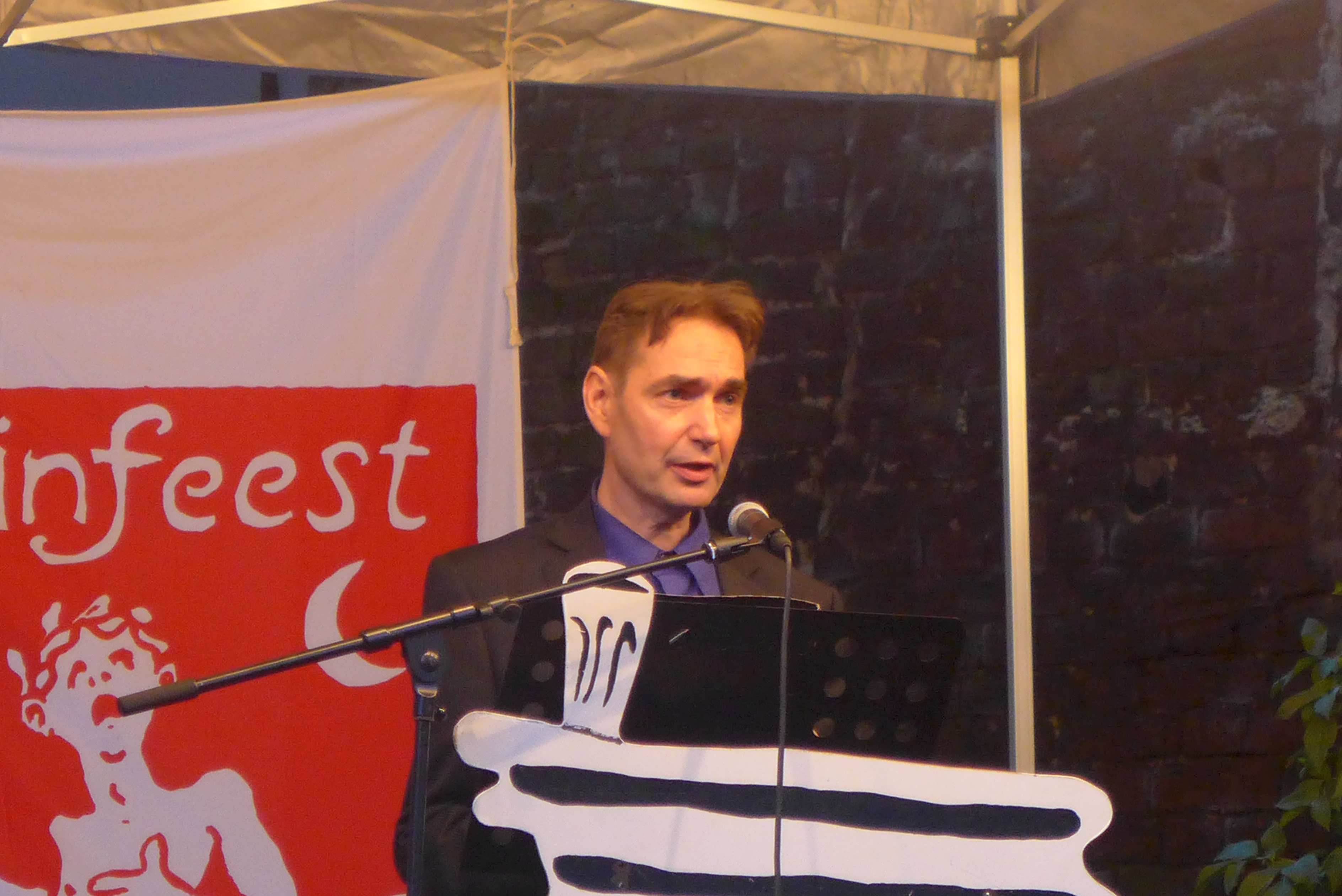 De Nederlandse dichter Menno Wigman tijdens zijn optreden op het poëziefestival 'Het Tuinfeest' in Deventer op 1 augustus 2015.